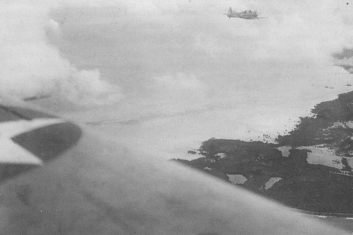 SBD dive bombers from the USS Yorktown (CV-5) over Makin Atoll during the February 1942 Marshalls-Gilberts raids. Aircraft in background is flown by flight leader LCDR Bill Burch. Aircraft in foreground is piloted by Ensign Thomas A. Reeves.